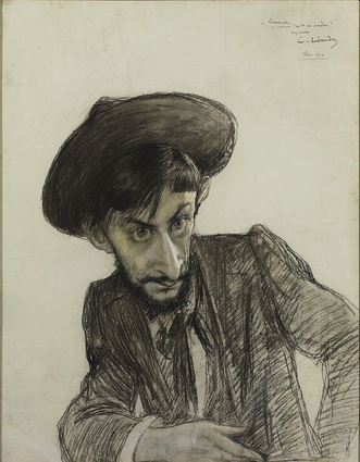 Portrait of Maurice Eliot, pencil drawing by Charles Léandre, dedicated as follow : « à la croisade en souvenir de la rue Houdon son ami C. Léandre Paris 1900 » - Dim. : 81.4 x 71.3 cm.